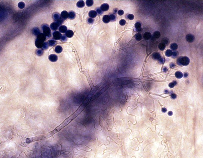 Sporulating Hyaloperonospora parasitica (downy mildew) growing in the leaf of Arabidopsis thaliana (cf.wikipedia) seen by bright-field microscopy. The staining with trypan blue makes the cytoplasm of H. parasitica dark blue. The 'tree' structure holding conidiospores is called conidiophore. This is the last step of the short life cycle of H. parasitica.